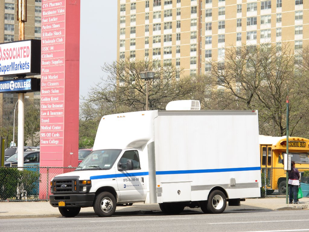 The MTA MetroCard Sales van makes a stop in Spring Creek Towers, Brooklyn. This van is one of three MetroCard vans.